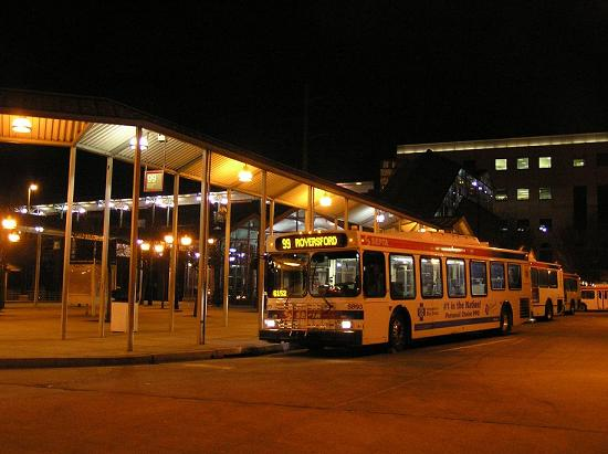 Taken by myself one evening on my way home from work, also available on my photobucket at